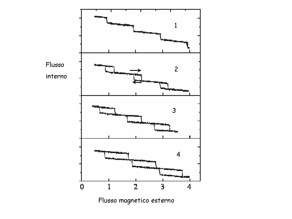 Experimental results (M. G. Castellano et al. J. Appl. Phys. 94, 7937 2003) showing the flux internal to a superconducting loop (vertical axis) of fixed inductance interrupted by a variable weak link ( a small inductance dc-SQUID) versus the applied flux. Spanish version: Image:Cuantización del flujo magnético en un anillo superconductor.png